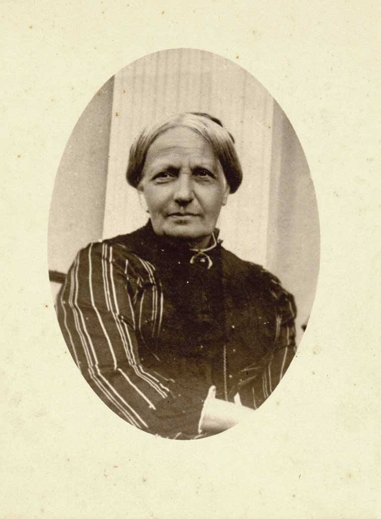 The picture of Princess Teresa of the Two Sicilies on her later age and the author of this picture is died more than 70 years ago.